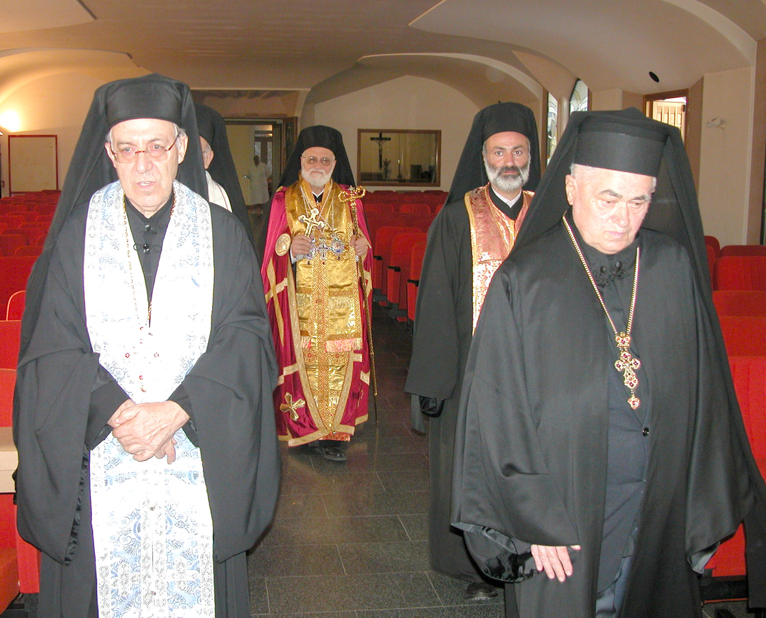 Melkite Patriarch Gregory III with some Archimadrites